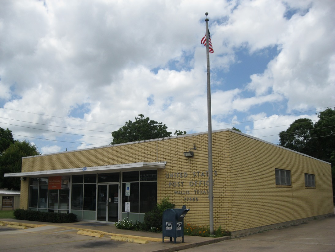 Photo shows the US Post Office on Railroad Street near FM 1093 in Wallis, Texas. View is looking north.